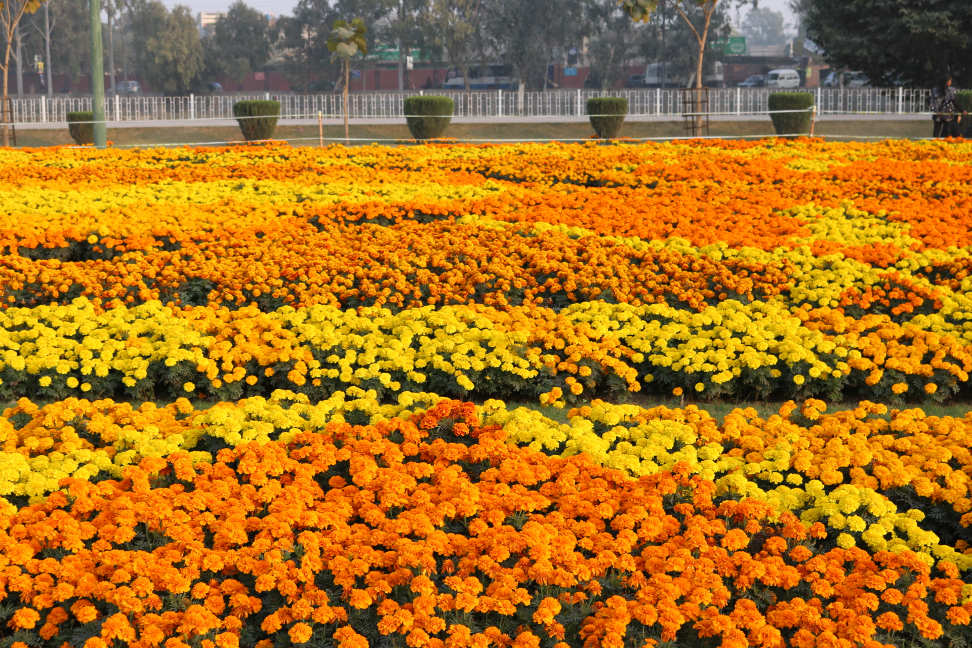 Flowers at Gulshan Iqbal Park